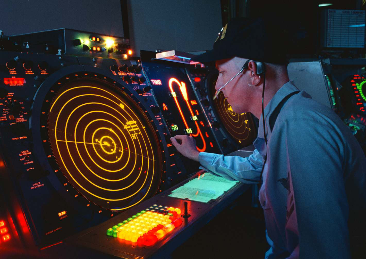 A U.S. Navy air traffic controller watches his radar scope where he works as an Aircraft Approach Controller in the Carrier Air Traffic Control Center on board the USS George Washington (CVN 73) on Jan. 30, 1996. The controller is responsible for ensuring the safe, orderly and expeditious flow of air traffic operating in the vicinity of the aircraft carrier. The nuclear powered aircraft carrier and its battle group are en route to the Mediterranean Sea for a scheduled six-month deployment. While there, they will patrol the waters of the Adriatic Sea in support of the NATO Implementation Force (IFOR) in Operation Joint Endeavor.